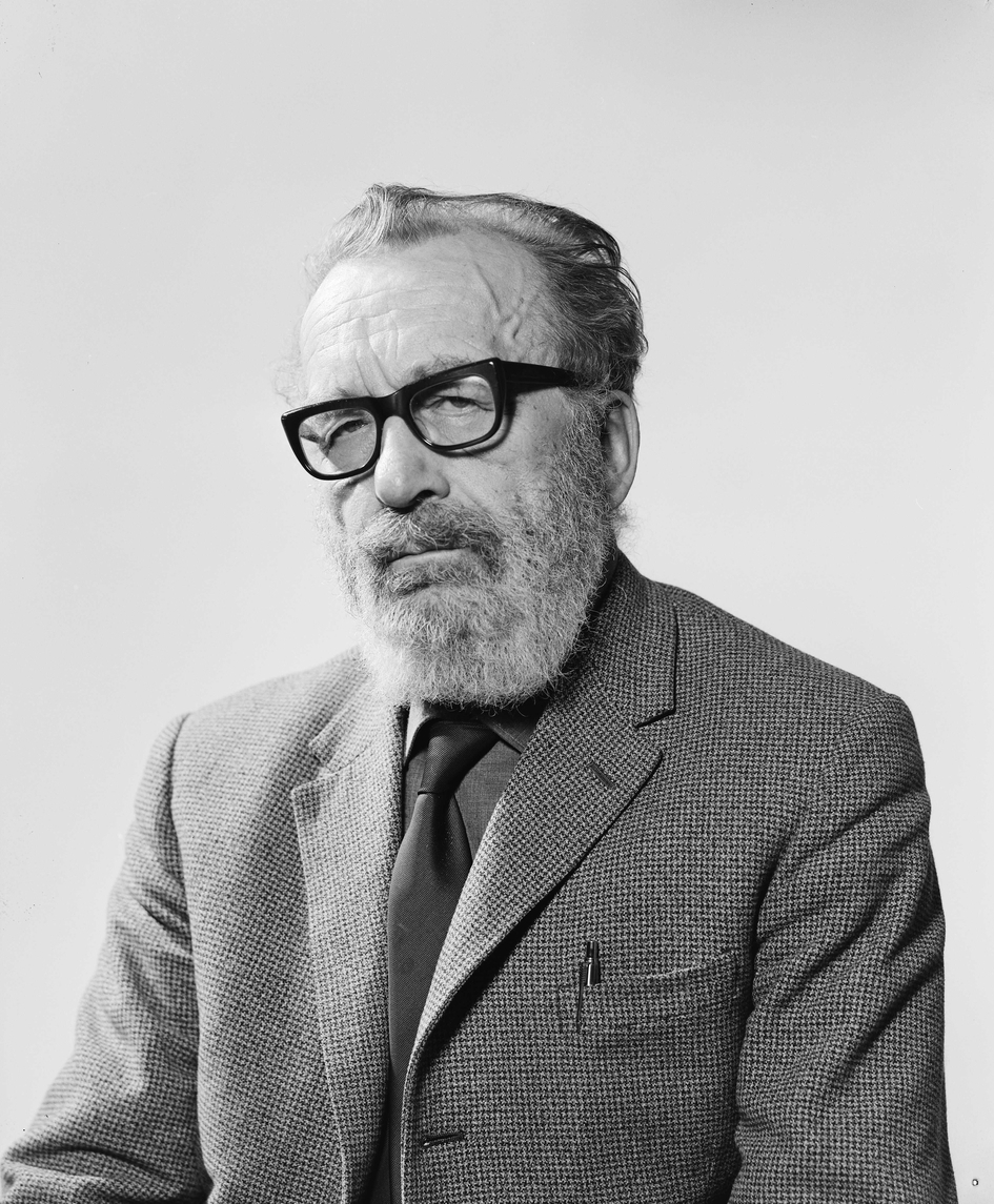 Aksel Sandemose was a novelist, born in Nykøbing, Mors Island, Denmark to a Danish father and a Norwegian mother.